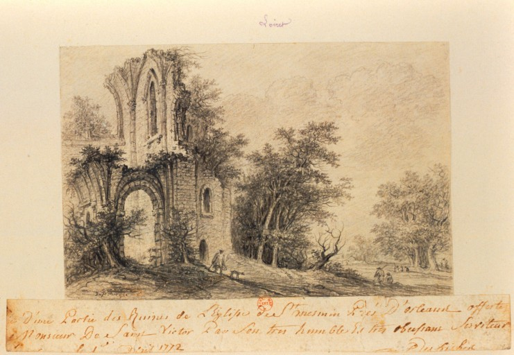 View of Part of the Ruins of Church St Mesmin Pres D'orleans